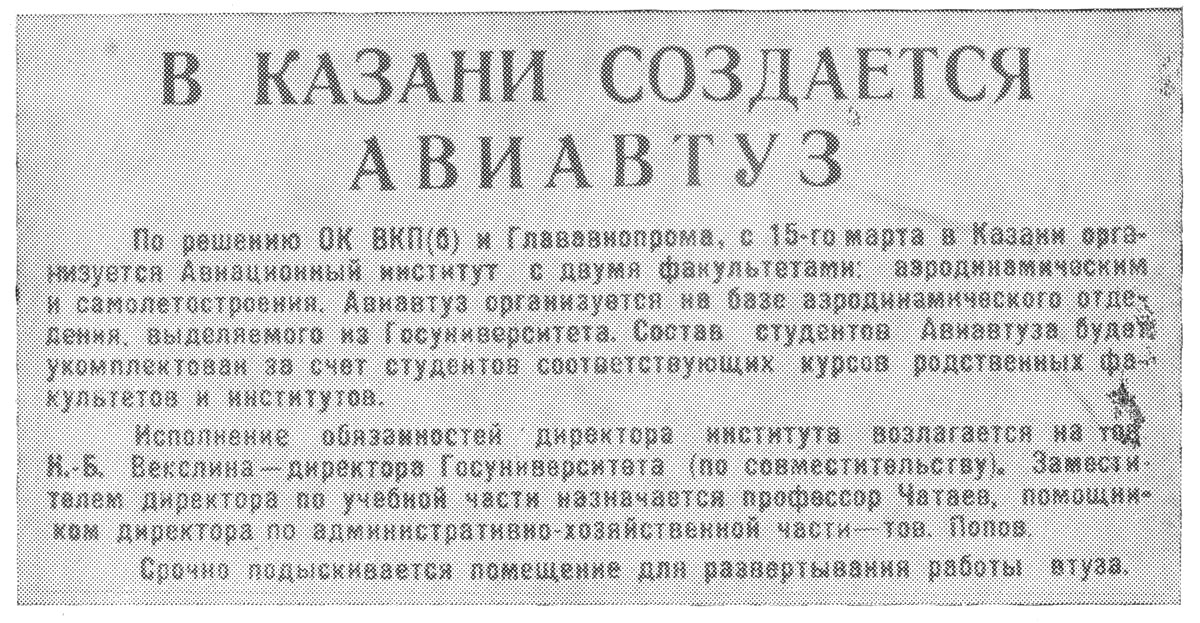 Article about establishing of Kazan Aviation Institute